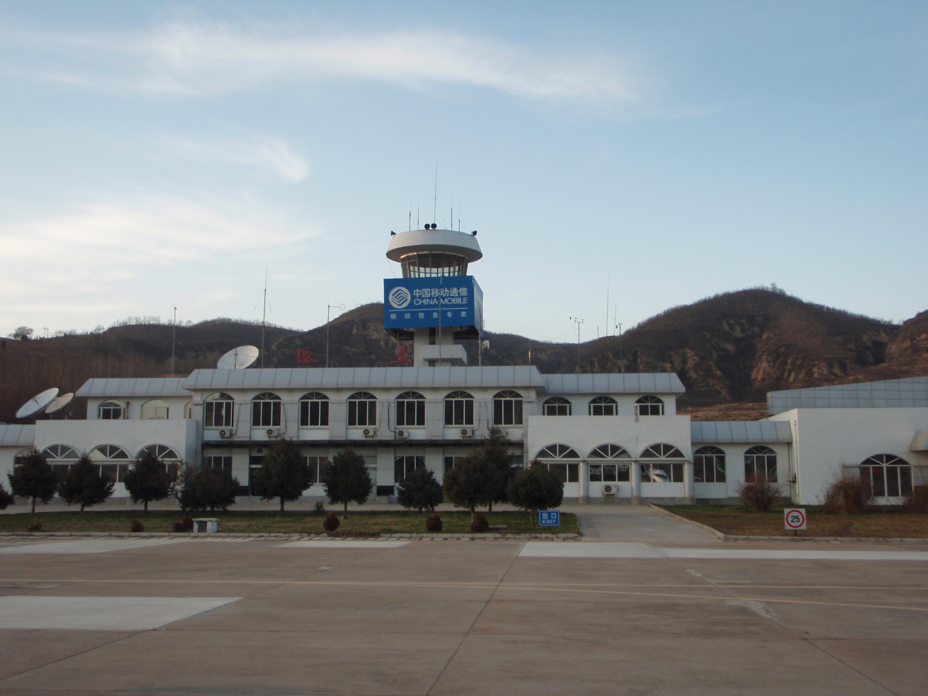 Yanan Airport terminal from taken from the tarmac.